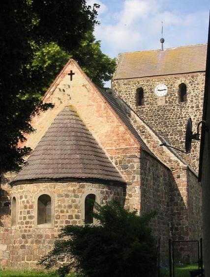 Stone church Dahnsdorf with a stonespire in the whole broadness of the nave. Built at the end of the 12th / at the beginning of the13th century. The village Dahnsdorf is a part of the municipality Planetal in the district Potsdam Mittelmark, state Brandenburg, Germany.